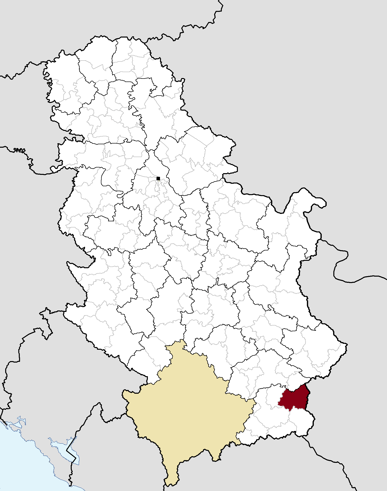 Municipal location in Serbia